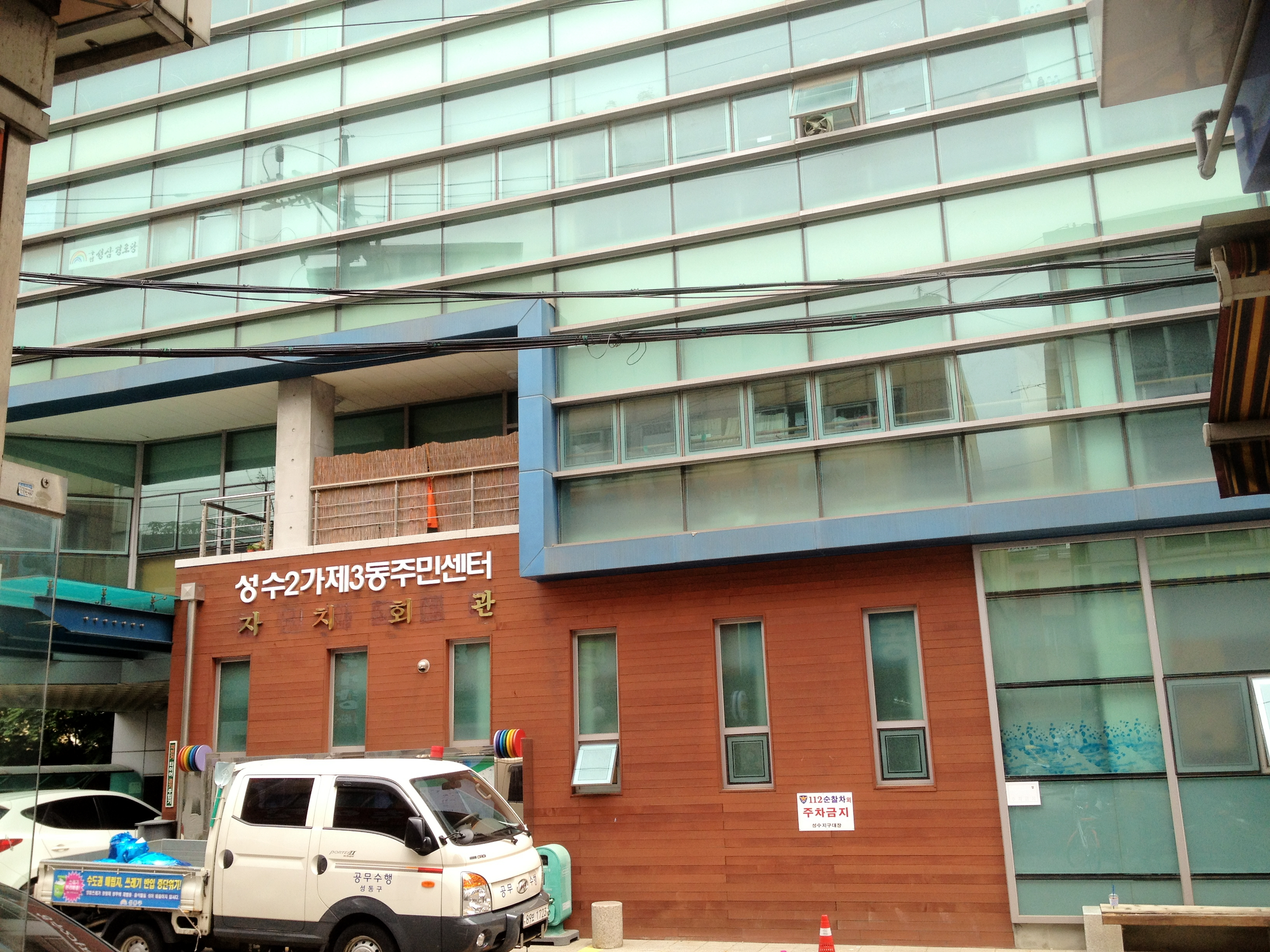 Seongsu 2-ga 3-dong Comunity Service Center(Seongdong-gu)